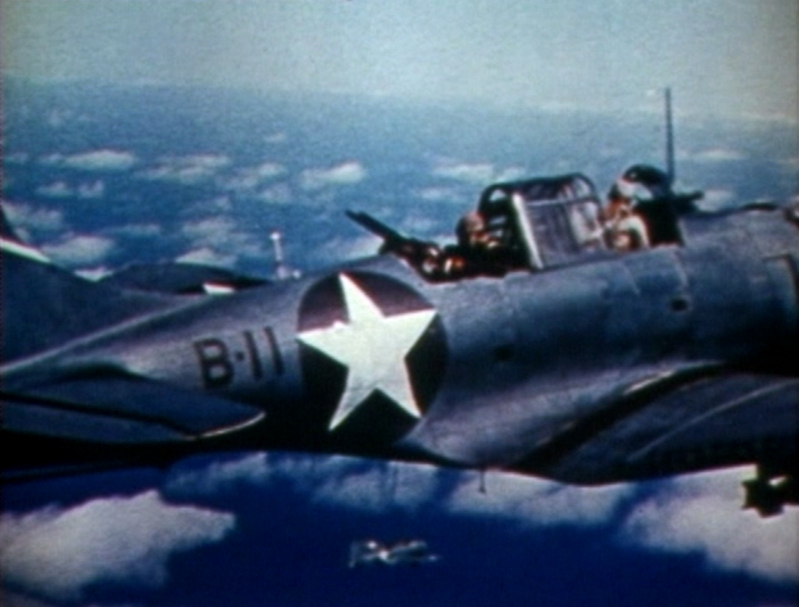 A U.S. Navy Douglas SBD-3 Dauntless dive bomber of bombing squadron VB-8, assigned to the aircraft carrier USS Hornet (CV-8) in May 1942.